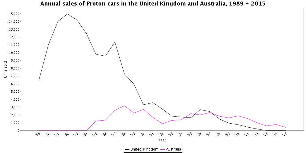 Sales of Proton cars in the United Kingdom and Australia, 1989 - 2015.As published by SMMT and VFACTS.SourcesU.K. : 1989, 1990 - 1994, 1995 - 1999, 2000 - 2004, 2005 - 2009, 2010 - 2014, 2015Australia : 1995 - 1999, 2000 - 2004, 2005 - 2009, 2010 - 2014, 2015 Raw data, U.K6555,11038,14026,14957,14196,12452,9800,9555,11381,7269,5986,3299,3577,2752,1861,1754,1652,2701,2468,1518,960,767,446,208,20,11,0Raw data, Australia0,0,0,0,0,0,1232,1373,2627,3182,2263,2742,1705,873,1320,1378,2164,2008,2336,1856,1635,1898,1542,1005,611,814,421